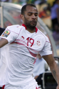 Even though Cote d'Ivoire beat Tunisia on January 26, the Carthage Eagles have one more chance to reach the next round at CAN.